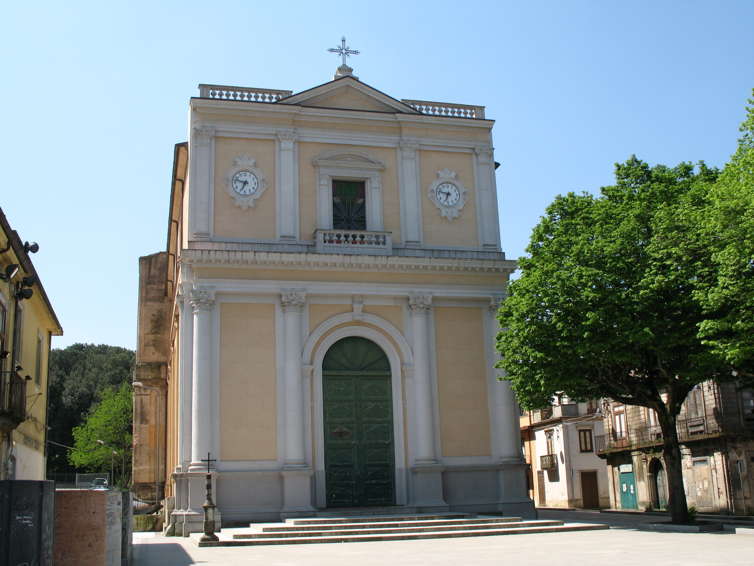 Saint Rochus church in Cittanova (RC)